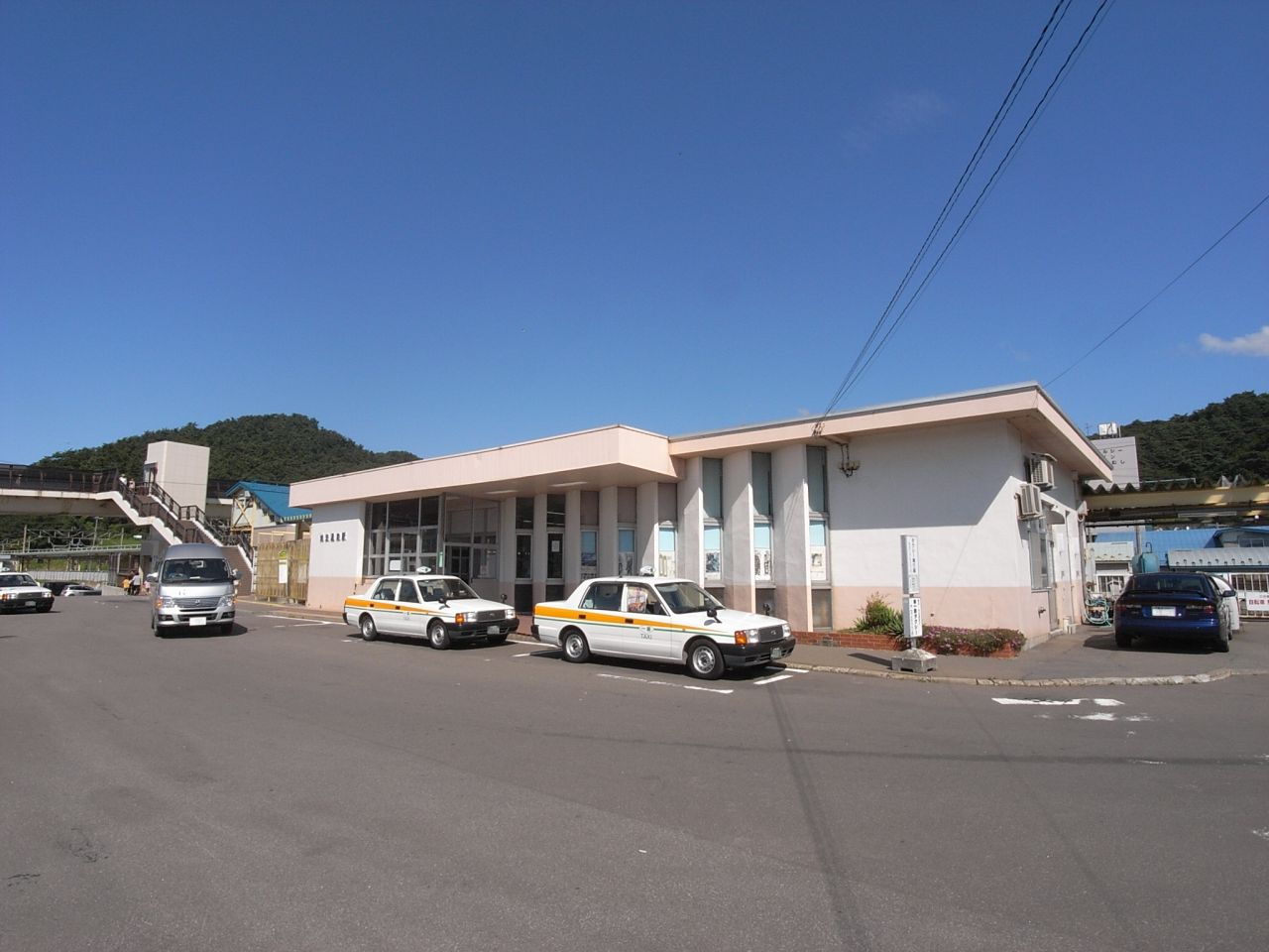 Asamushi-Onsen Station buiding, on the Tohoku Main Line, Aomorija:浅虫温泉駅